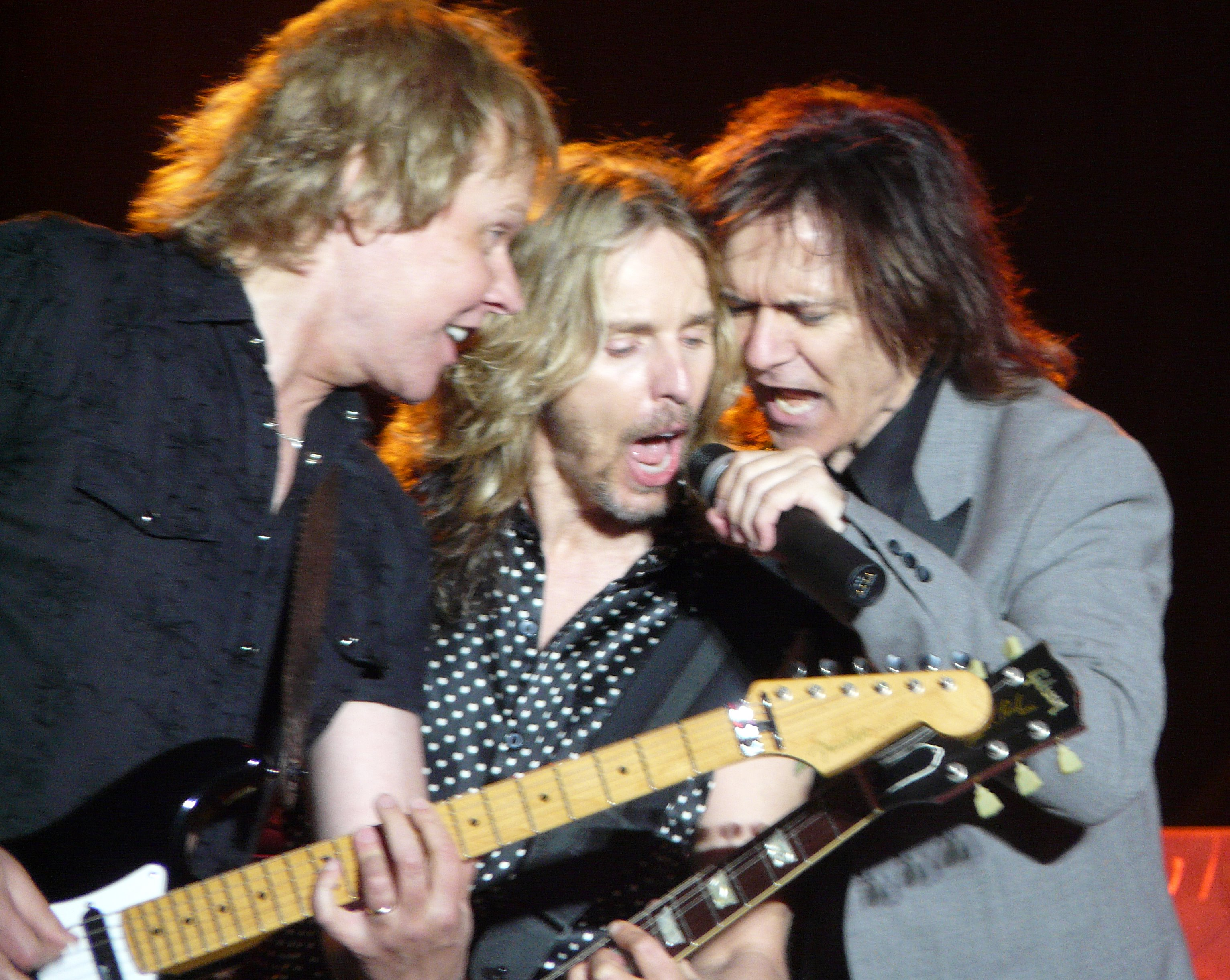 STYX Taken by Matt Becker, STYX at the Grand Casino in Hinckley, MN on June 13, 2008 L to R: James "JY" Young, Tommy Shaw, Lawrence Gowan